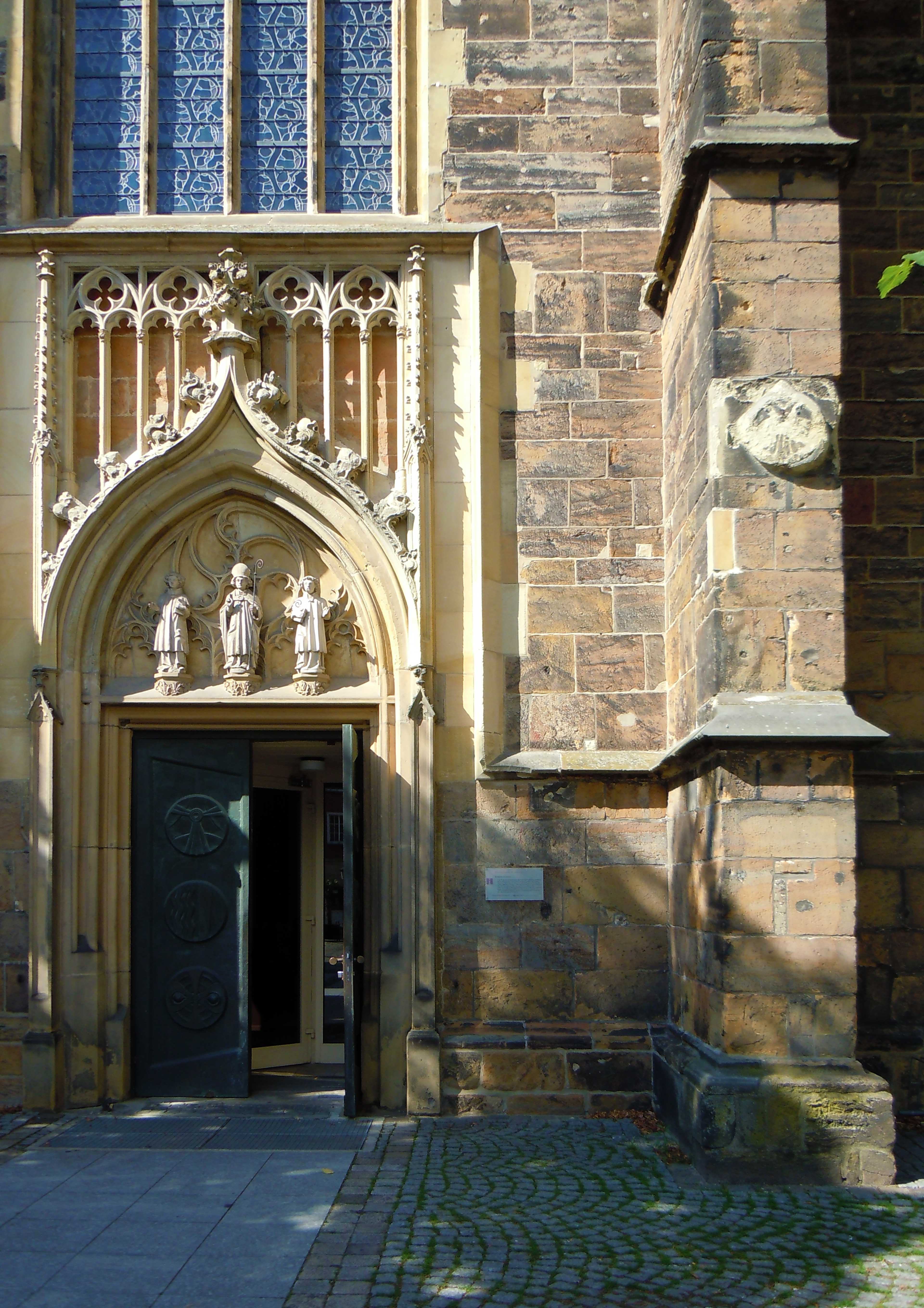 Church St. Dionysius Rheine, Gernmany, South-Portal